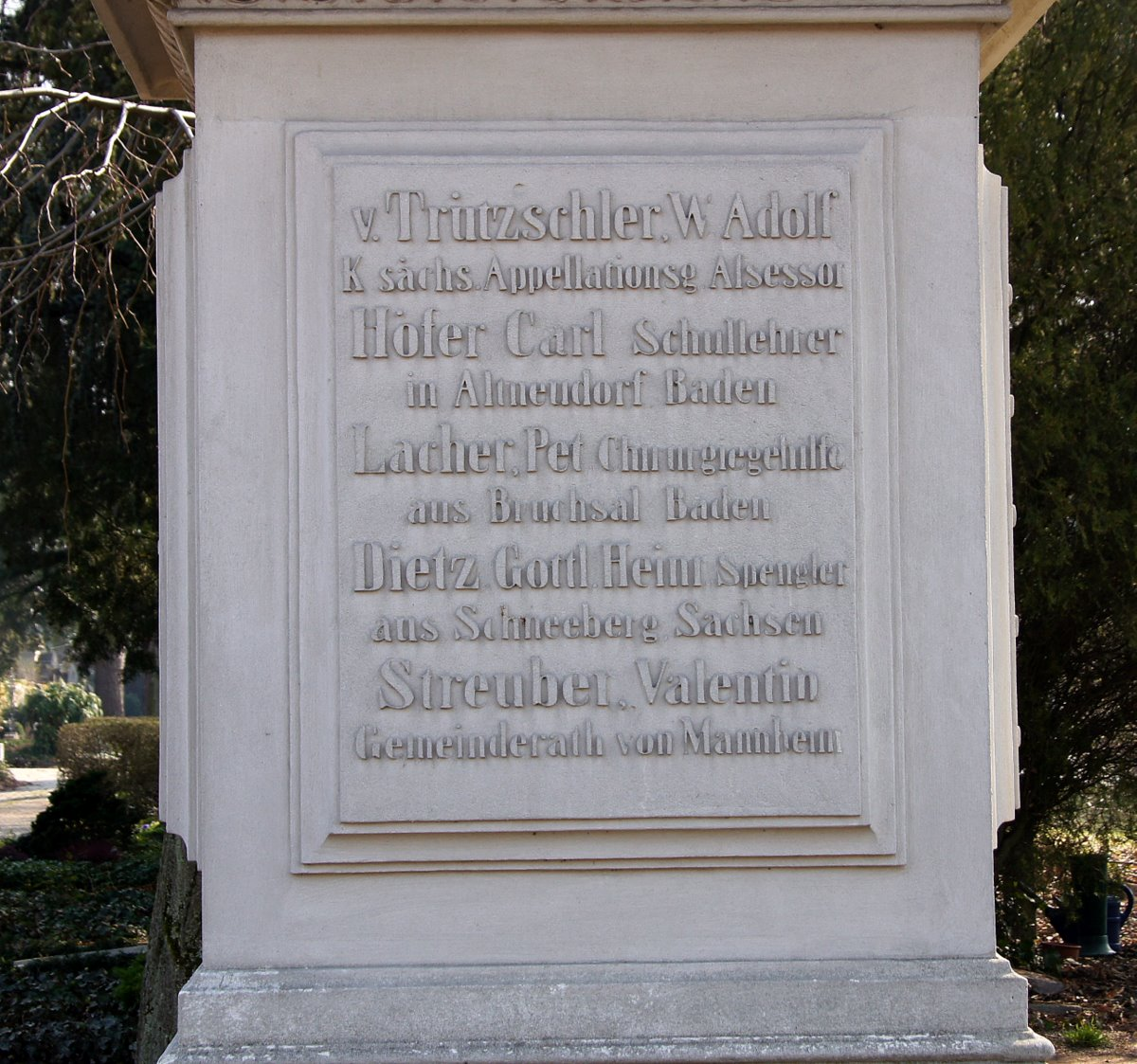 Victims of 1848er